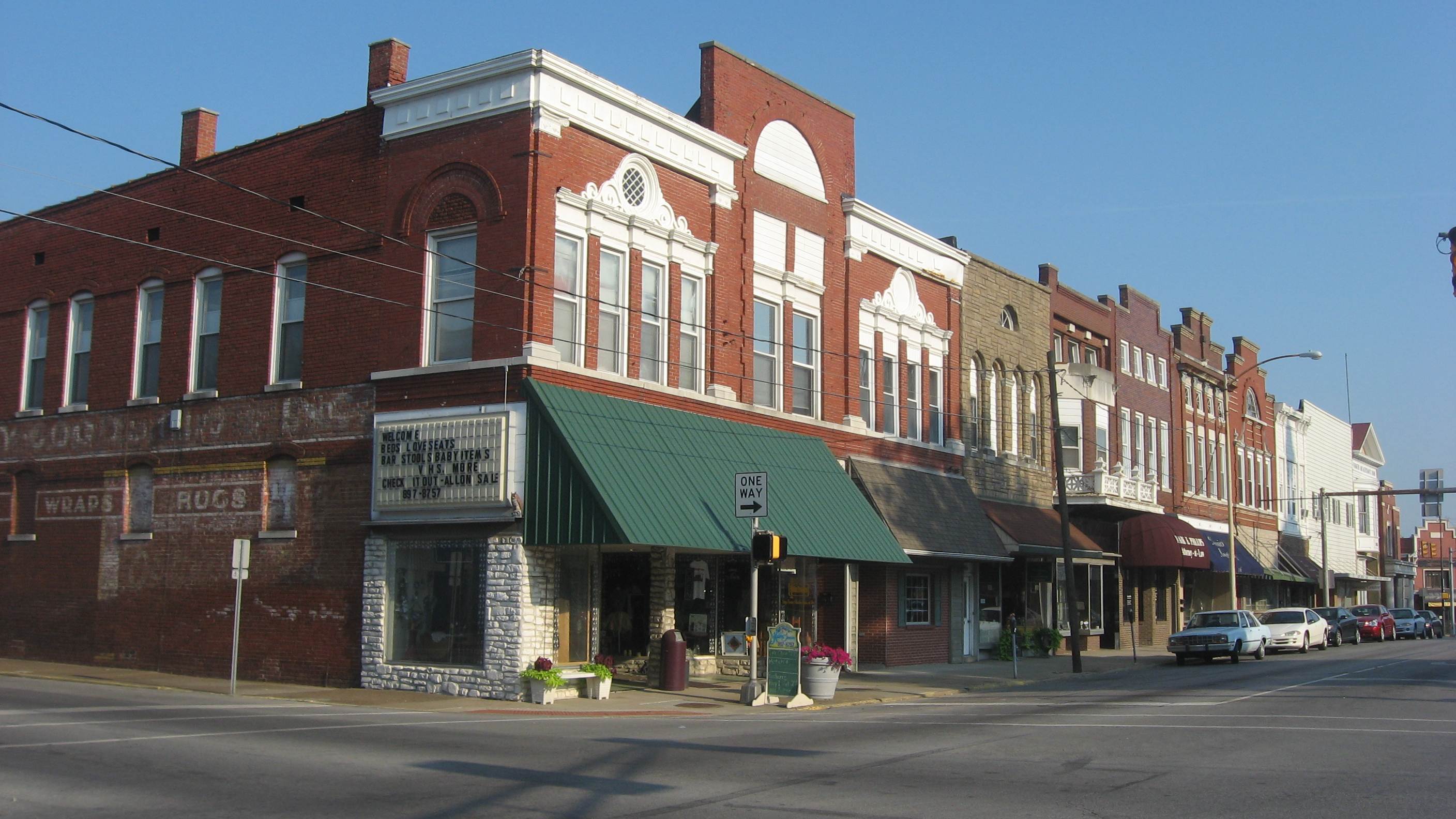 Buildings on Third Street facing Courthouse Square in Boonville, Indiana, United States. This block is part of the Boonville Public Square Historic District, a historic district that is listed on the National Register of Historic Places.